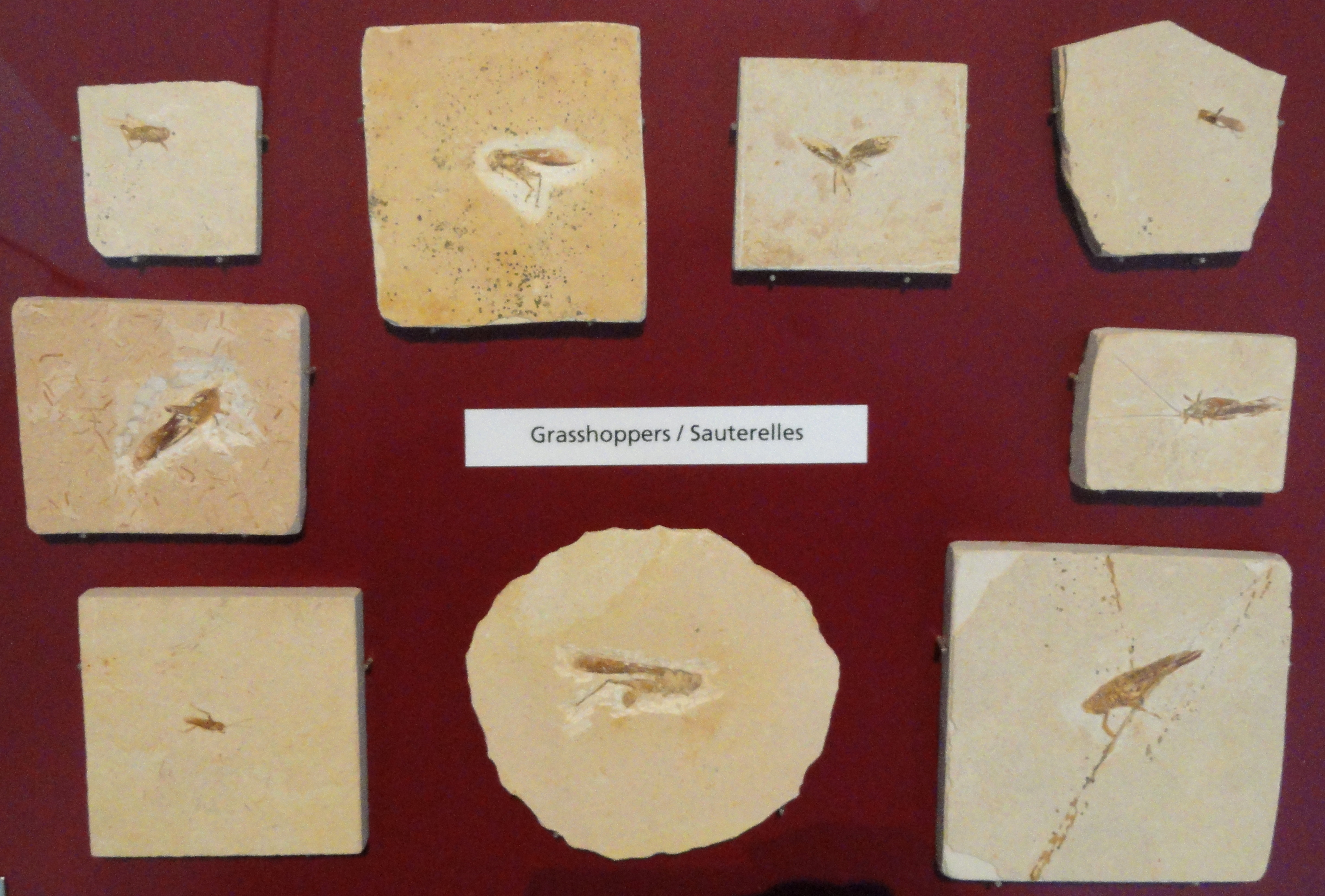 Exhibit in the Royal Ontario Museum, Toronto, Ontario, Canada. This exhibit is old enough so that it is in the public domain, and photography was permitted in the museum. I took this photograph and release it into the public domain.